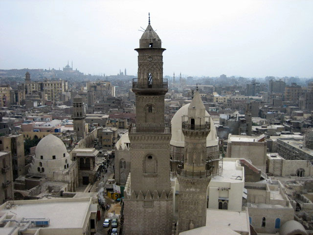 Cairo, top view